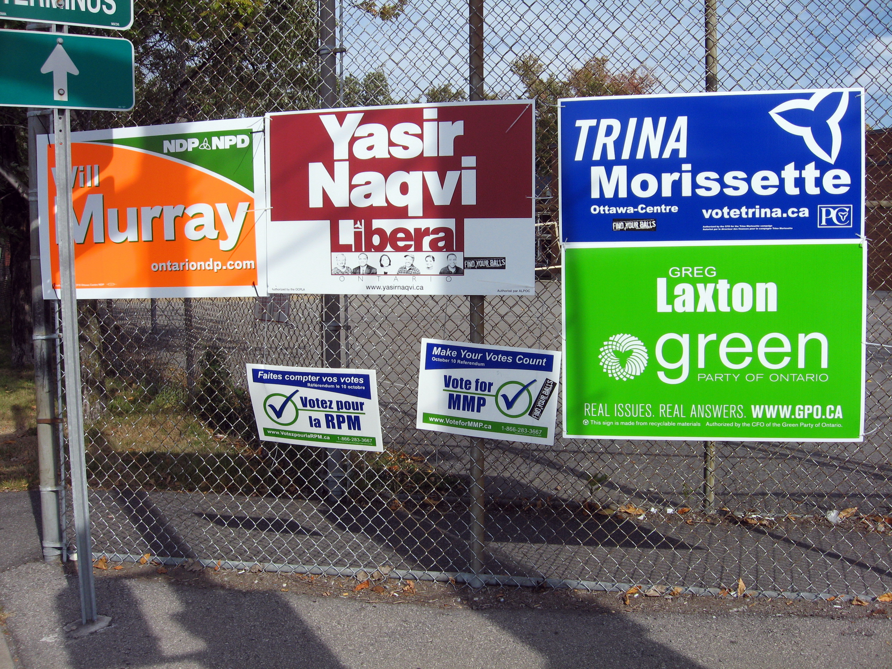 Signs for the 2007 Ontario election in Ottawa Centre, Canada